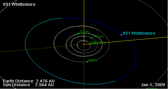 931 Whittemora orbit, and his position on 01 Jan 2009 (NASA Orbit Viewer applet)